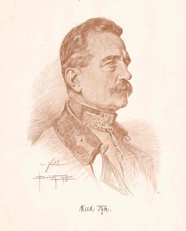 Karl Kuk (1853-1935), general of the austro-hungarian Army